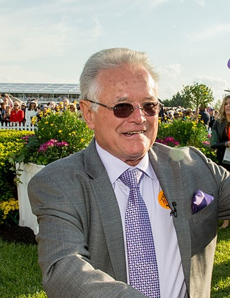 Art Sherman (facing camera) at the 139th Preakness Stakes. by Jay Baker at Baltimore, MD.